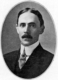 Waddy Butler Wood, a prominent architect from Washington, D.C., in the early 20th century.